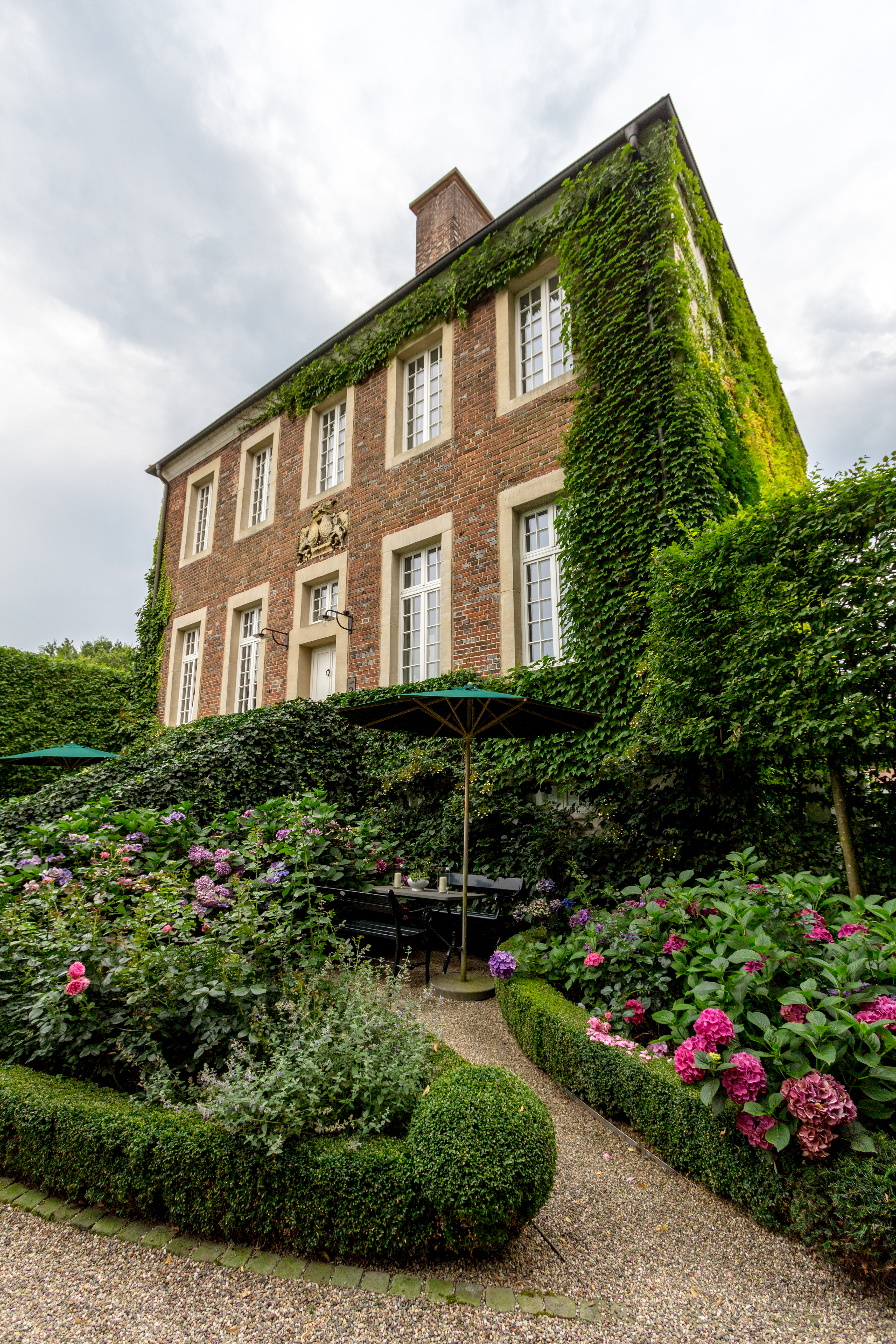 Osthoff Manor in Dülmen, North Rhine-Westphalia, Germany This image shows a heritage building in Germany, located in the North Rhine-Westphalian city Dülmen (no. 26). This is a photograph of an archaeological site.